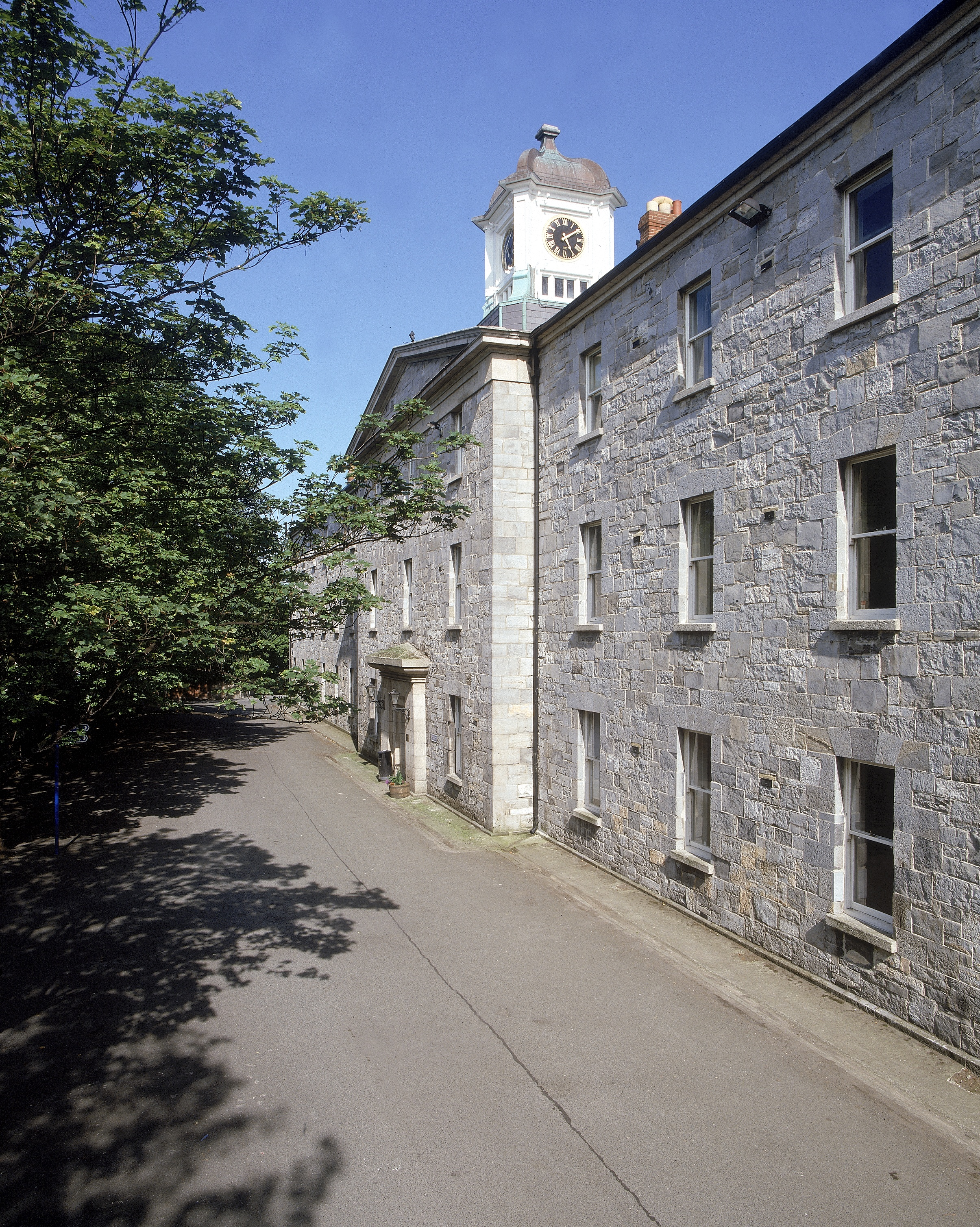 Front view of Griffith College Dublin main building